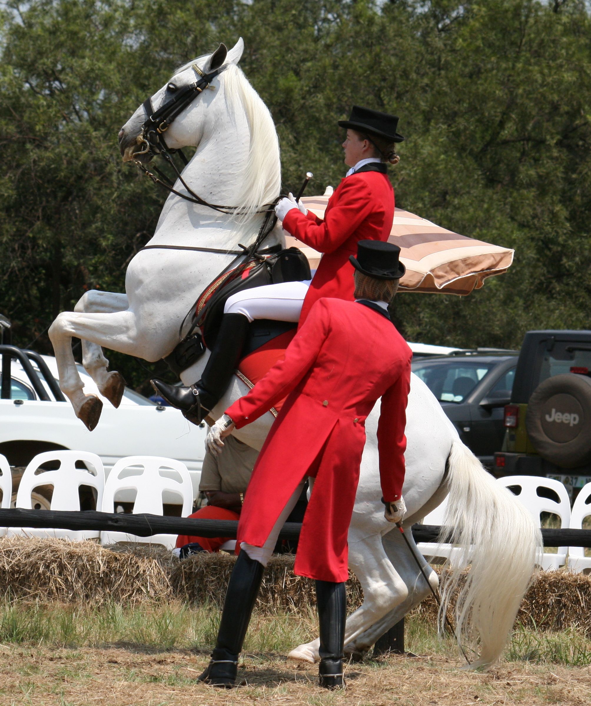 A Lipizzaner stallion (Pluto Montenegra) is performing a levade during an open air performance of the South African Lipizzaner School.